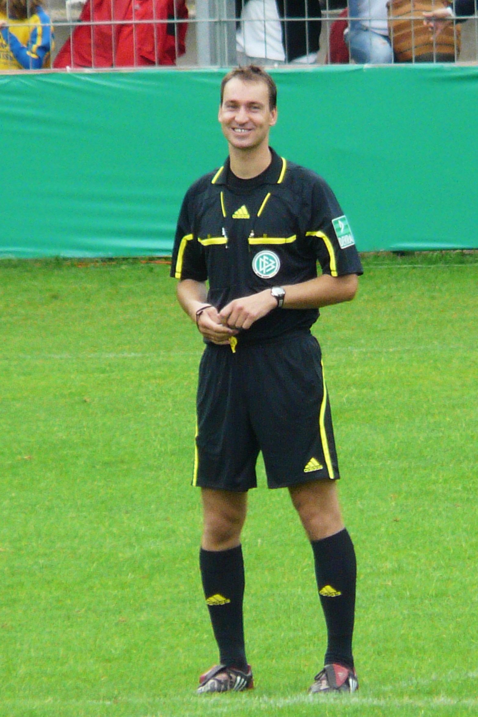 Bastian Dankert Referee